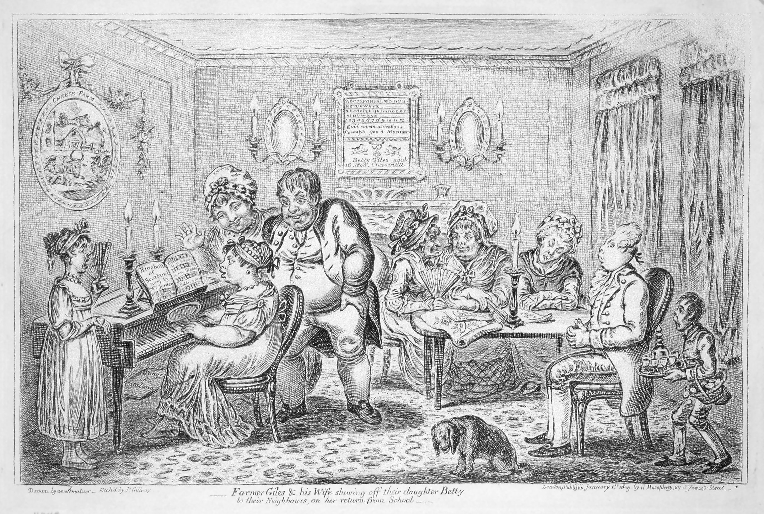 (This 1809 caricature by Gillray satirizes a prosperous farmer's family aspiring to female musical "accomplishments" and other middle class refinements.) Text in oval on wall at left: "Cheese Farm" Music on Piano: "Blue Bells of Scotland sung by Mrs. Jordan" On back wall: Sampler sewn by "Betty Giles" SUMMARY: Cartoon showing plump girl playing piano. Her parents gloat nearby while others appear less interested.